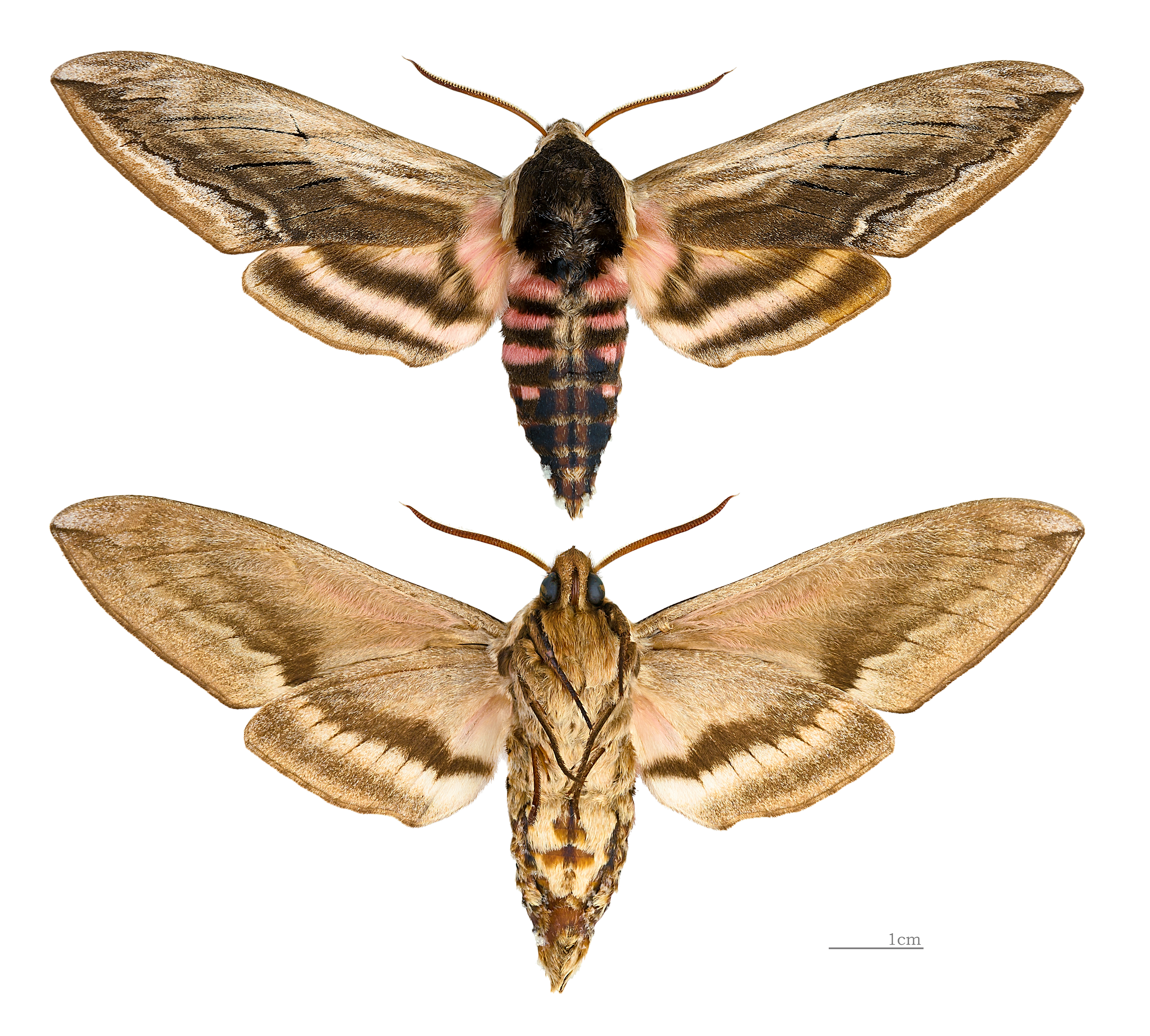 Privet Hawk Moth - Two views of same specimen